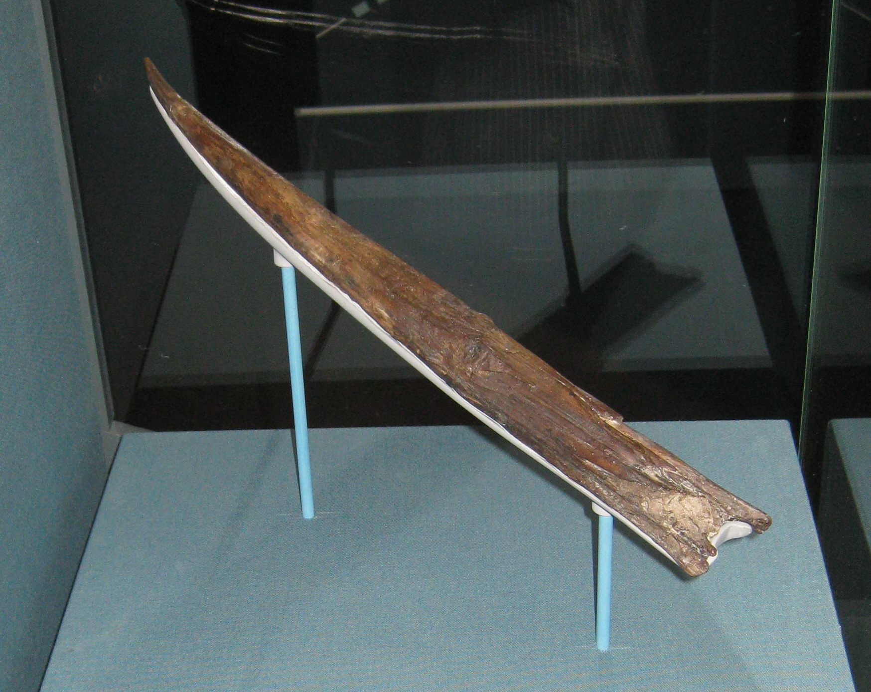 Detail of Clacton Spear 01 The Clacton Spear, display at the National History Museum. London. Sign reads: "The Clacton spear Made of yew, this spear point is the oldest preserved wooden spear in the world, Its owner would probably have used this as a lethal weapon, stabbing prey at close range to generate enough force to pierce the animal's skin. Taxus sp. Clacton, Essex, England, around 420,000 years old. E1138"